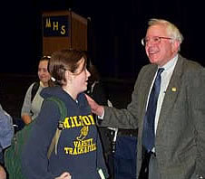 Bernie meets with students at Milton High School in Milton, VT where he discussed funding for education, healthcare and how government affects their lives. (Milton, VT 2-20-04)